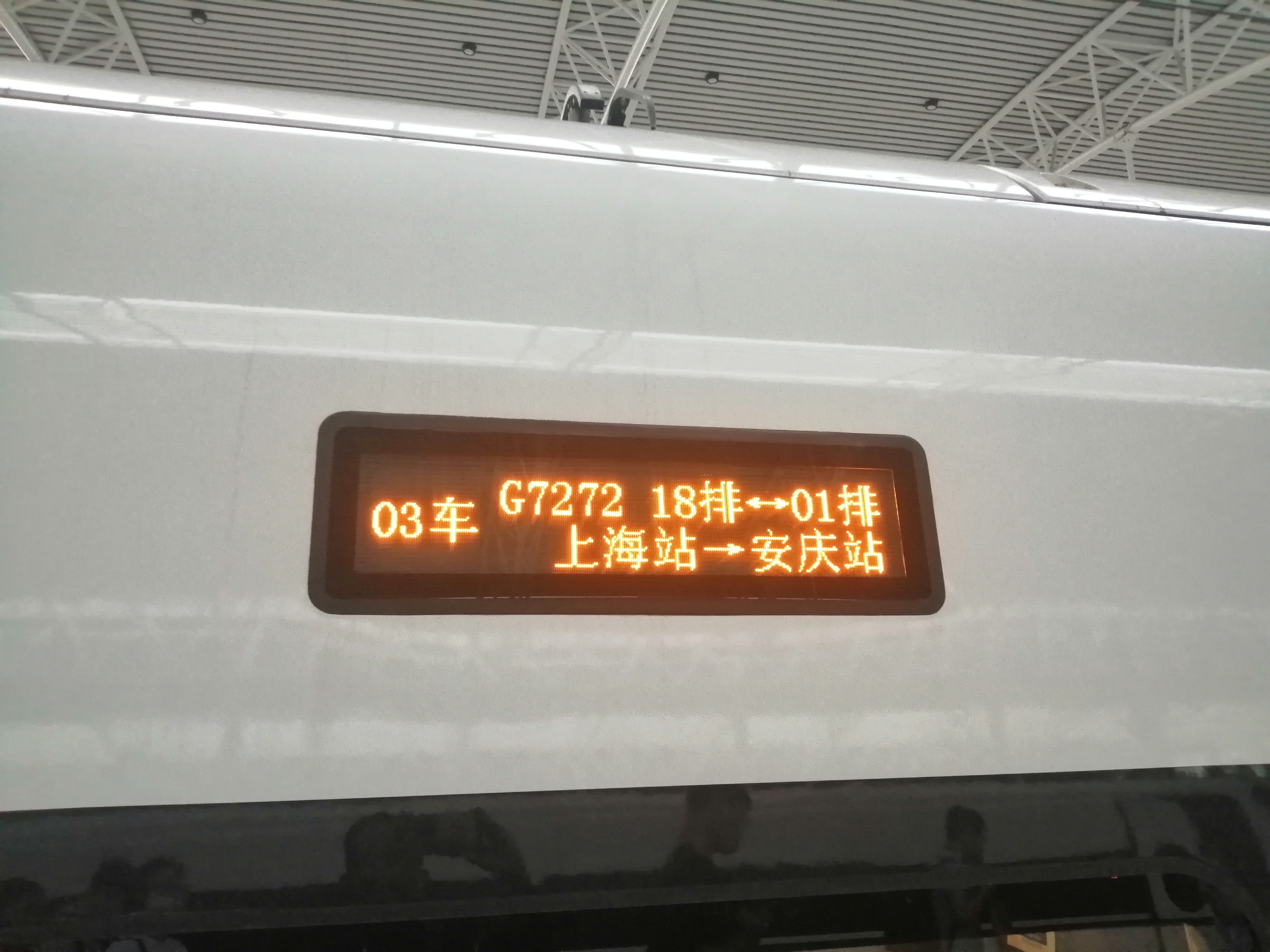 Infoboard of G7272. This train is bound for Anqing, but the infoboard's style is different from the others.